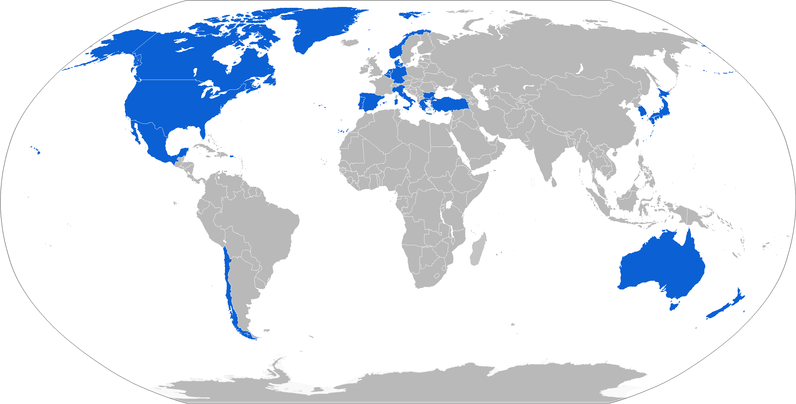 Map with RIM-7 operators in blue